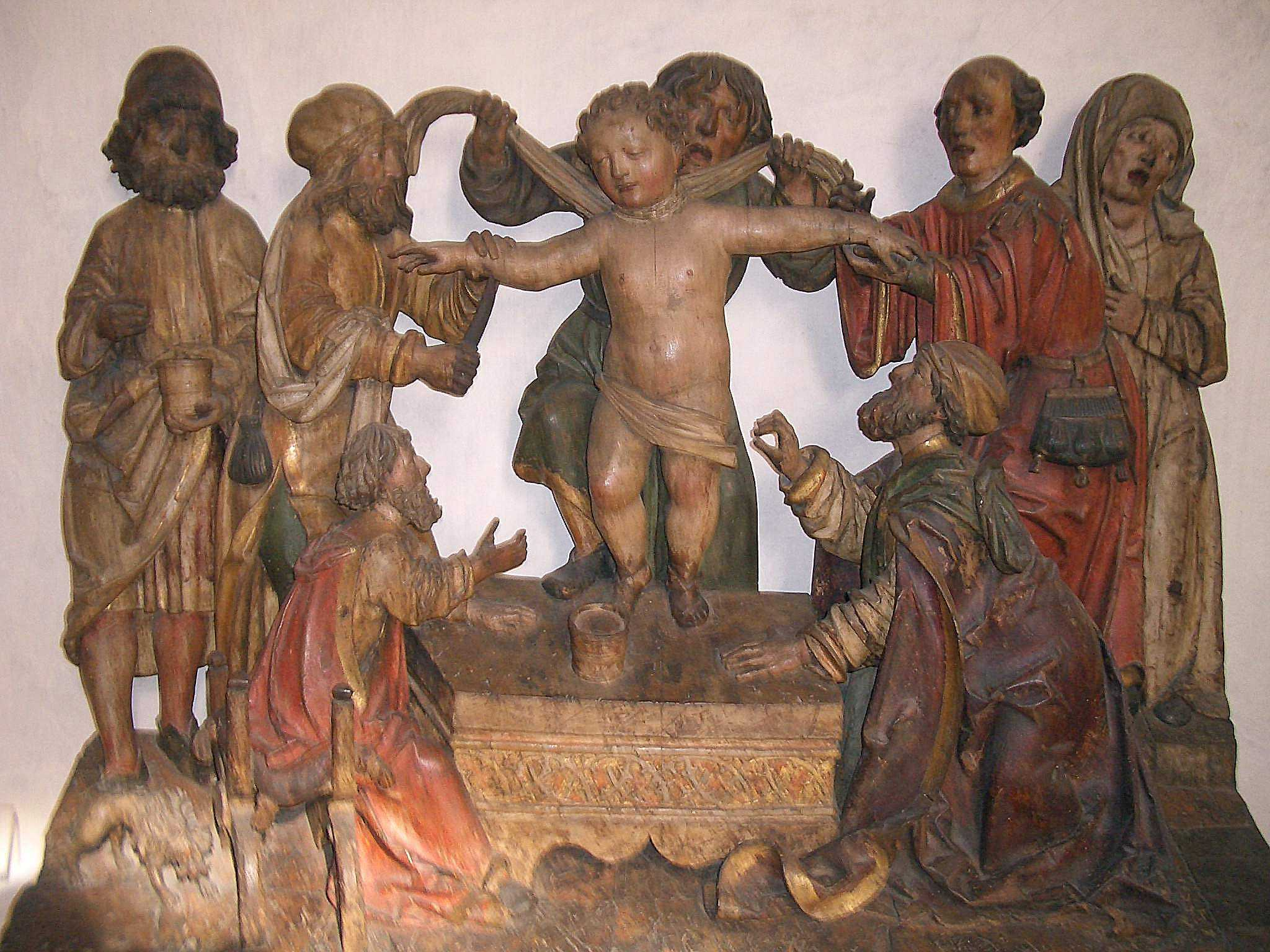 After the body of a 2-year-old child was found in the cellar of a Jewish home, several Jews in Trento were accused of ritually slaying him. 15 Jews were condemned to death after confessing to the Blood Libel.